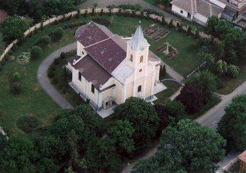 Kenderes, Hungary, aerialphotography. Nagyboldogasszony római katolikus templom This is a photo of a monument in Hungary, Identifier: 6008